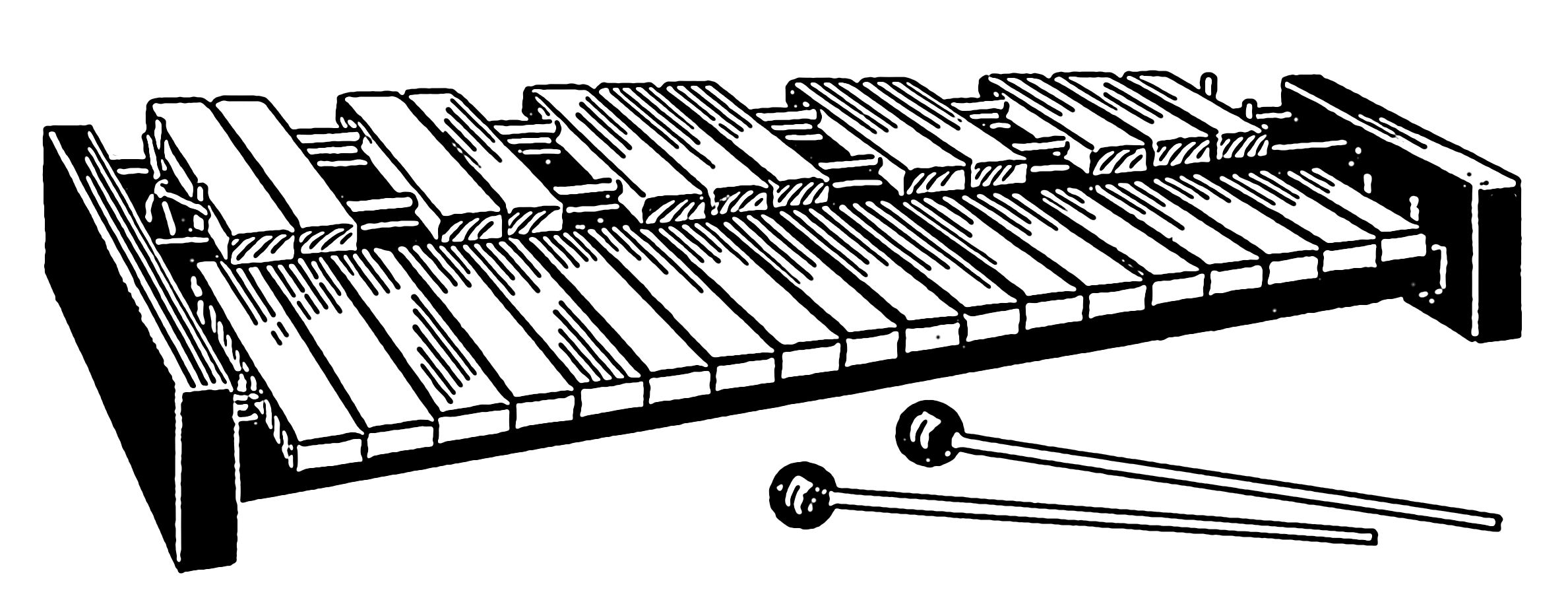 Line art drawing of a xylophone.